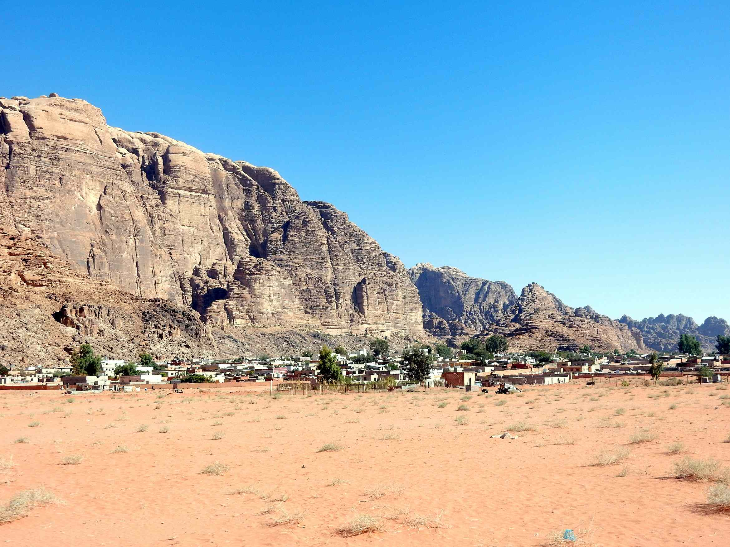 JORDANIEN | JORDAN | Wadi Rum Village You're welcome to use this picture free of charge, as long as you follow the license terms. As a matter of courtesy a link (dofollow links are welcome!) to is much appreciated. Thank you! ————————–—–—–—–—–—–—–—–—–—–—–—–—–—–—– Du kannst dieses Bild gemäß der Lizenzbestimmungen unentgeltlich nutzen. Über eine Verlinkung (dofollow am liebsten) auf freuen wir uns. Danke!